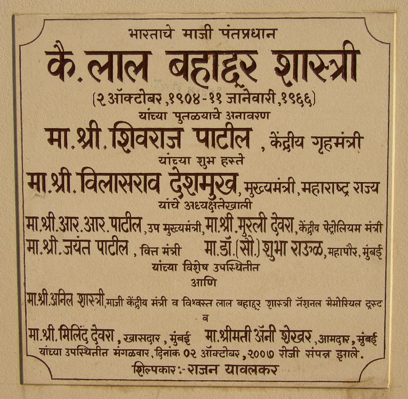 Plaque in Mumbai in Maharashtra, India